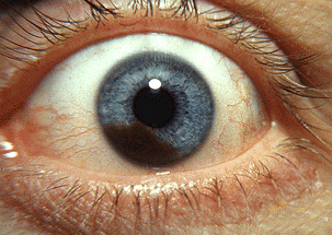 Photograph of an iris melanoma